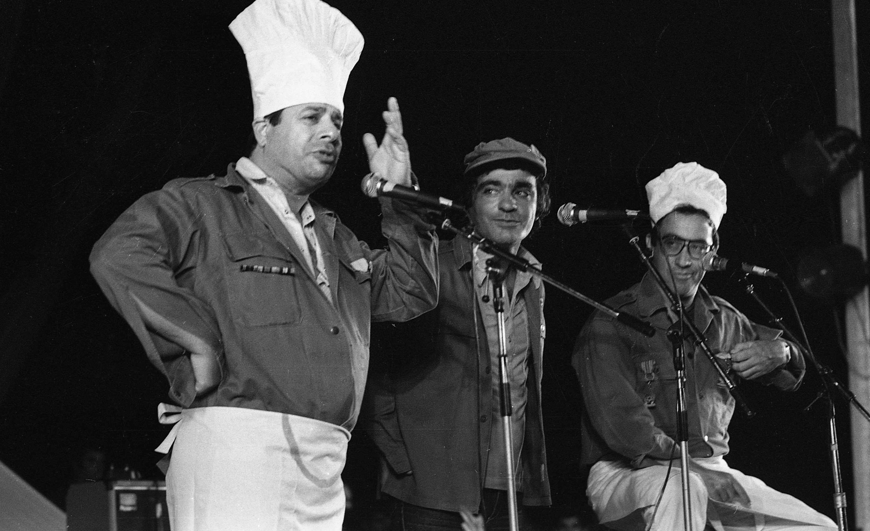 The famous entertainment group HaGashah HaHiver (Hagashashim), performing their famous humorist pieces for soldiers during Operation Peace for Galilee (The 1982 Lebanon War). Dan Hadani collection, National Library of Israel